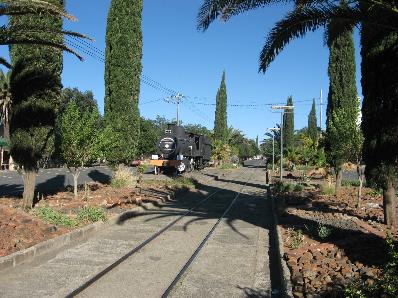 Fauresmith